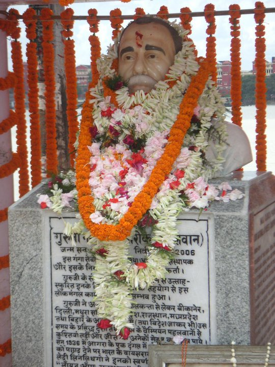 Statue of Nathmal Pahalwan at Ganga Seva Samithi on the banks of ganges in Calcutta, India